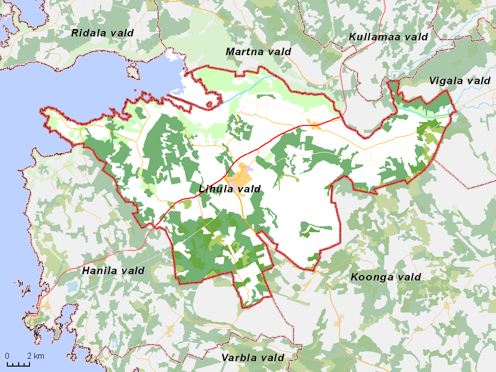 Map of municipality in Estonia